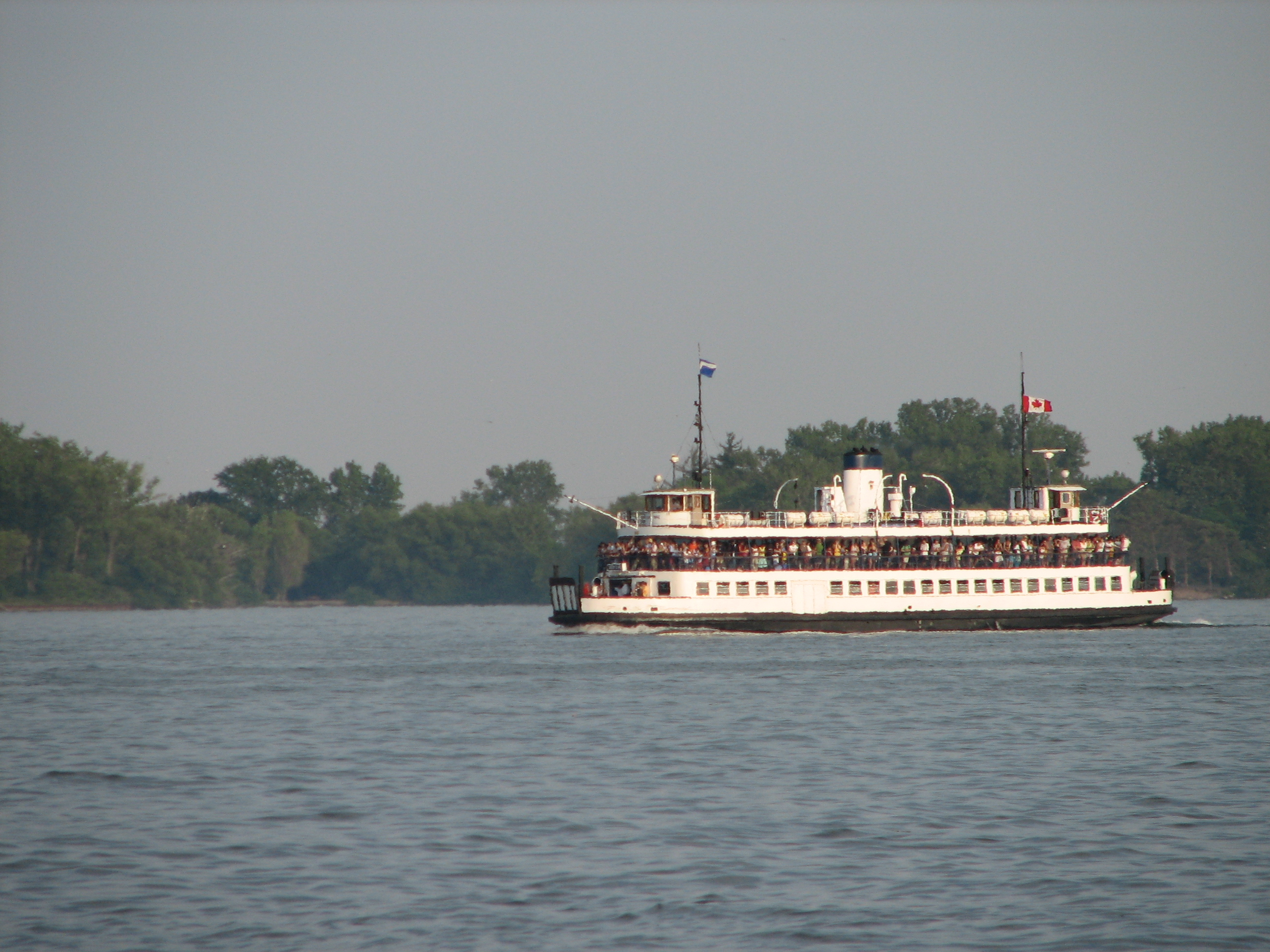 A photograph of the Toronto Island ferry crossing the Toronto Harbour taken from the mainland.